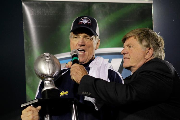 Marty Schottenheimer following his Virgina Destroyers championship win